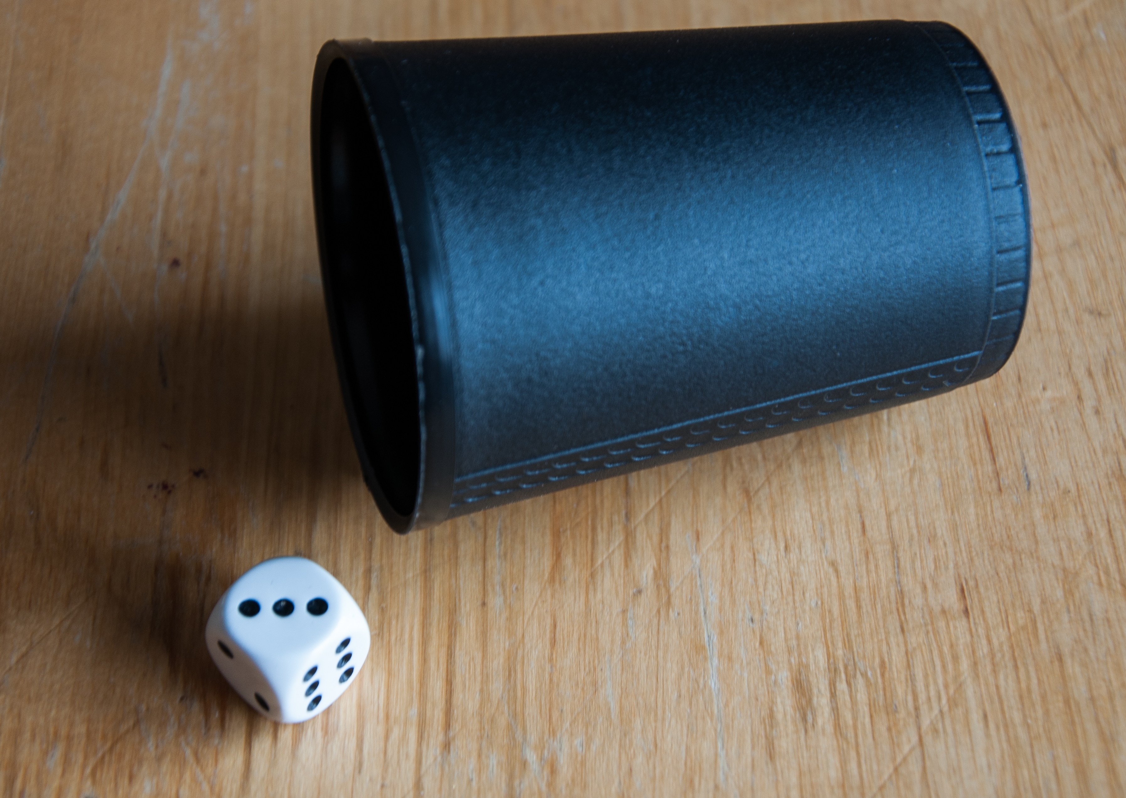 Dice